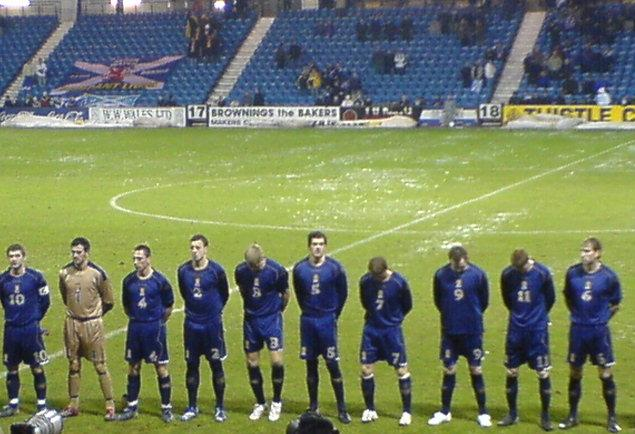 Taken at Rugby Park, Kilmarnock on February 7 2007. Scotland B vs Finland B.